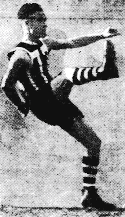 Bob Quinn photograph showing a kicking motion in 1936 from The News (Adelaide) paper.